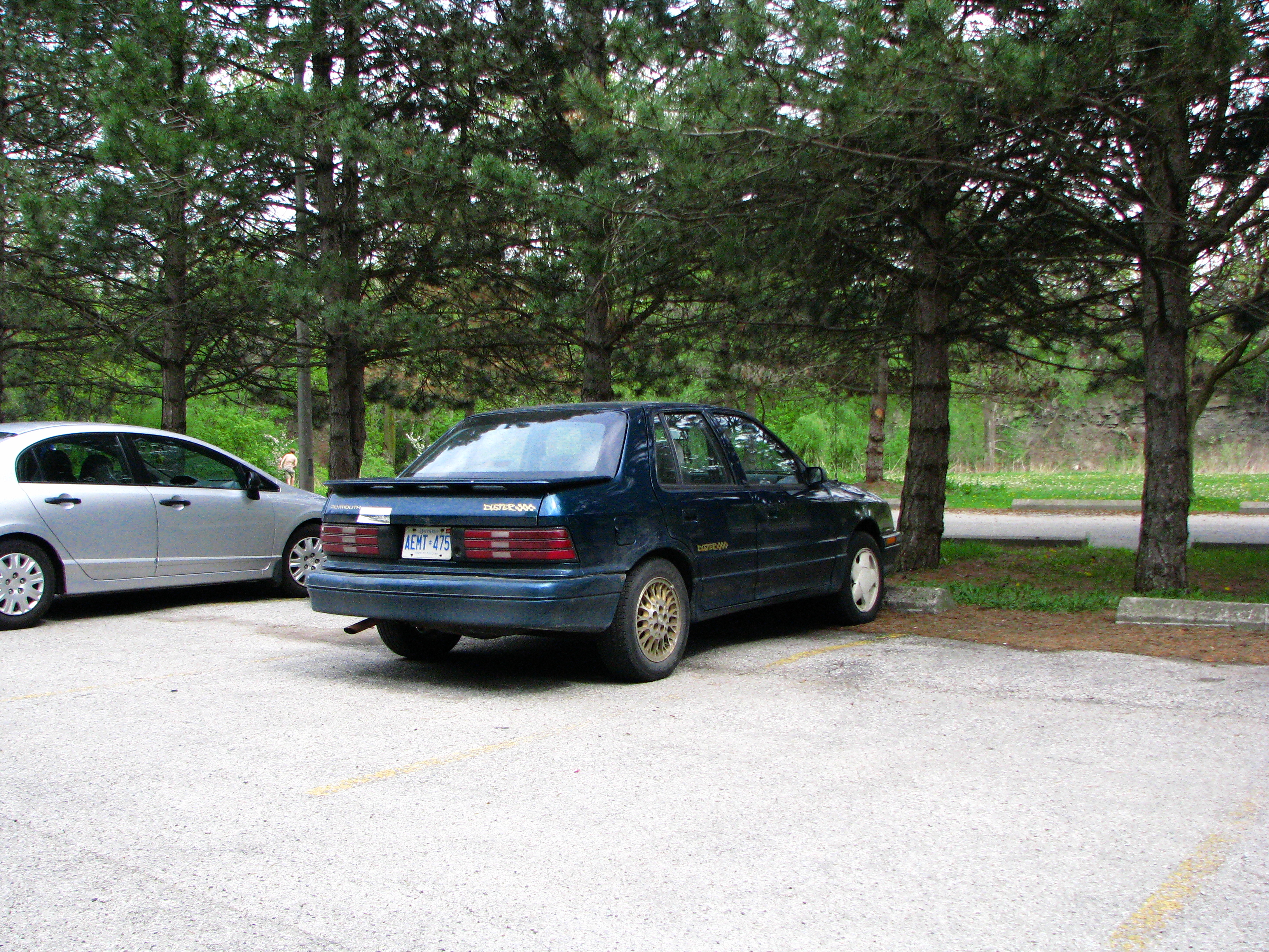 Plymouth Duster